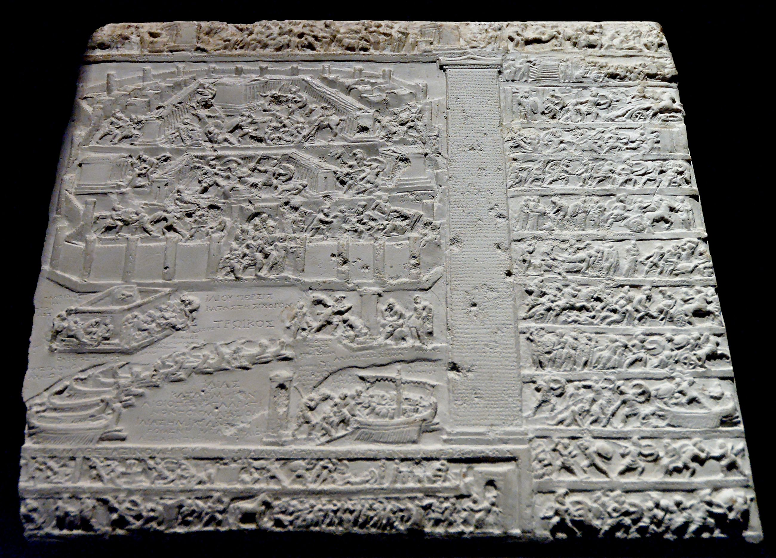 Tabula Iliaca: relief with illustrations drawn from the Homeric poems and the Epic Cycle–here from the Ilioupersis, the Iliad, the Little Iliad and the Æthiopis. Limestone, Roman artwork, 1st century BC.